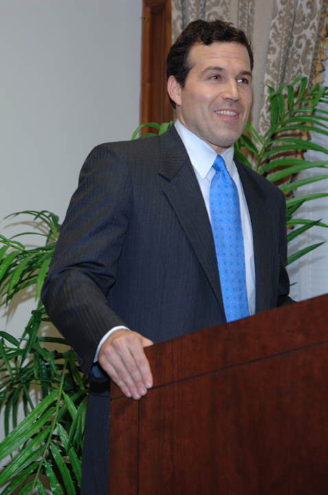 David McCormick, incumbent Under Secretary of the Treasury for International Affairs.